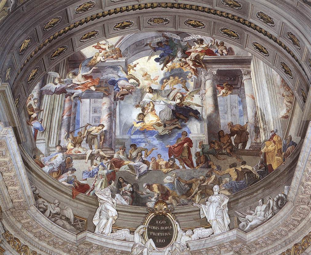 Detail of the Allegory of the Jesuits' Missionary Work (Ceiling frescos), Palazzo Barberini, Rome